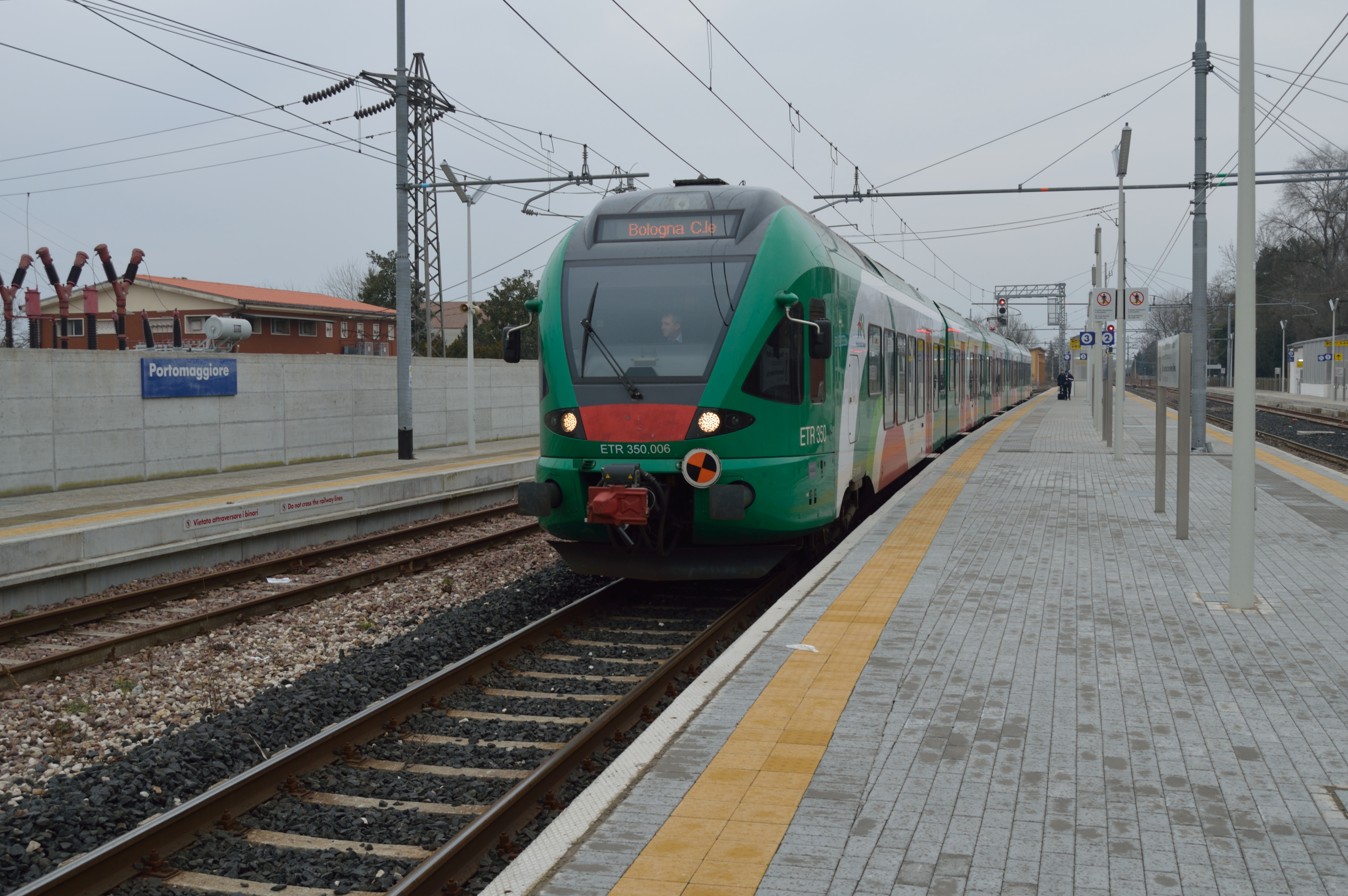 TPER EMU ETR.350.006 waits to depart with train R 315, 12:50 Portomaggiore to Bologna Centrale on 24 February 2015.